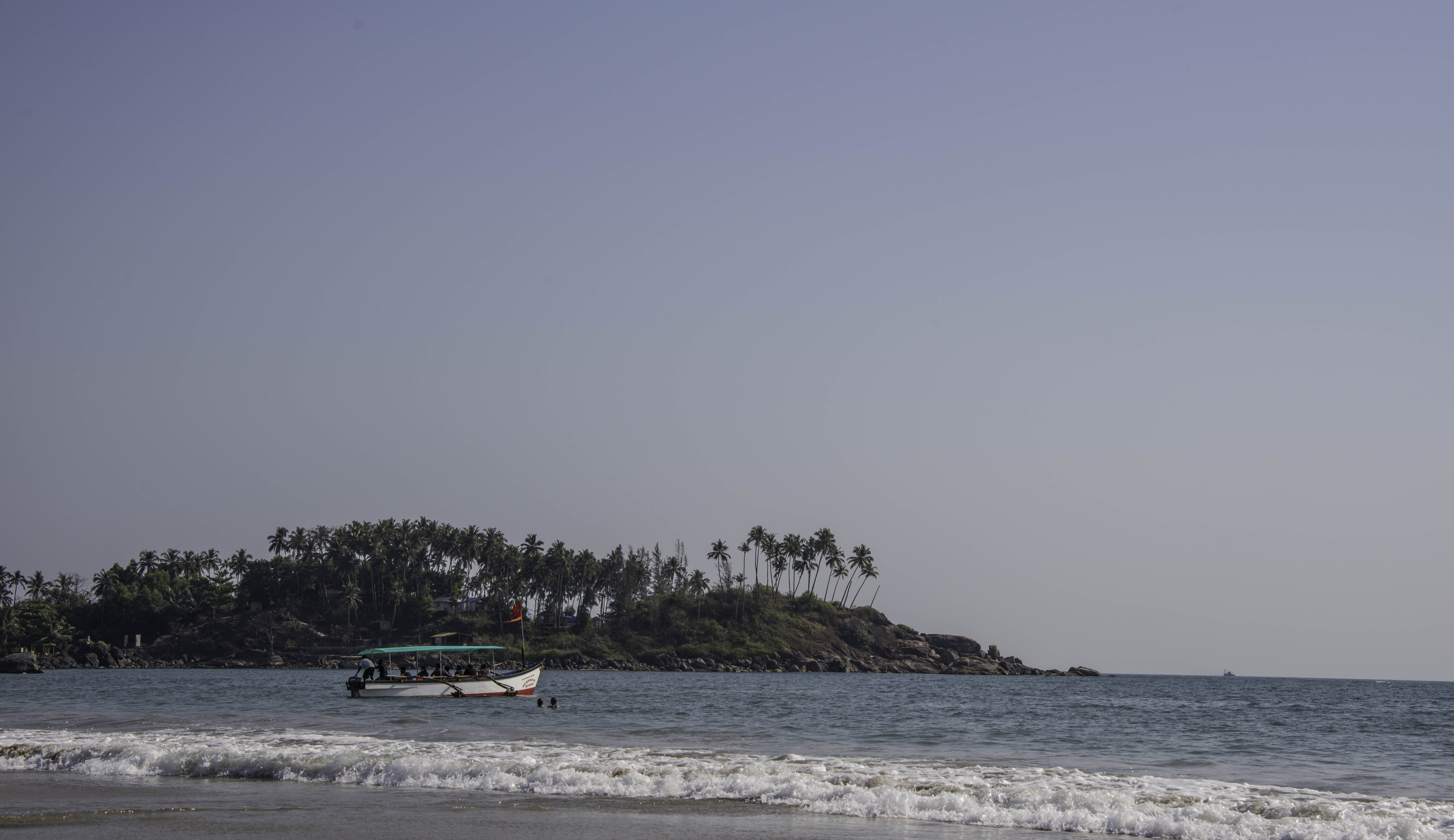 Extreme left side of the beach